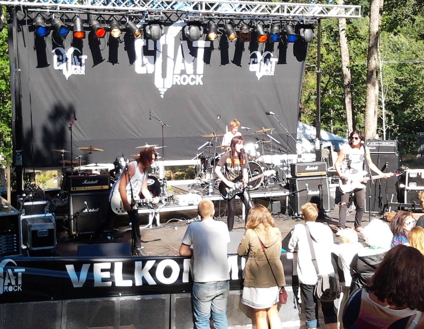 Goat Rock festival 2012 - Valerie